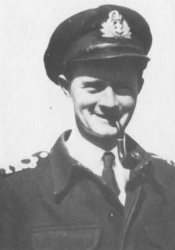 Photo of Scottish World War II Victoria Cross recipient Donald Cameron.